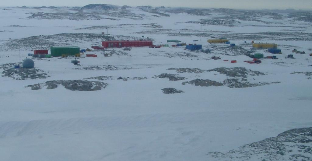 Casey Station from the air.